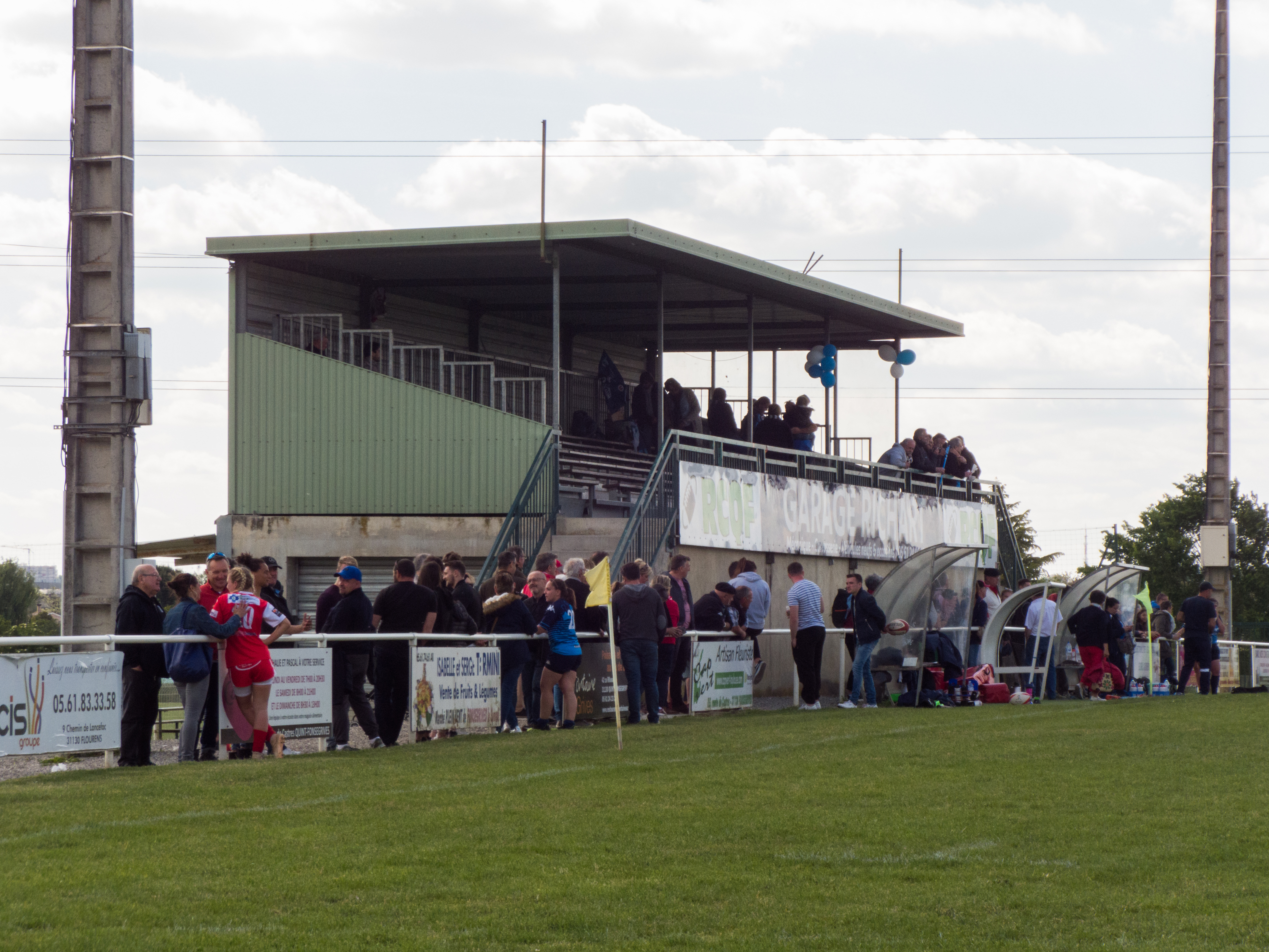 Q60050780 — 12 May 2019, stade Guy-Borrel. Match between: Q3360155 — Q3322886